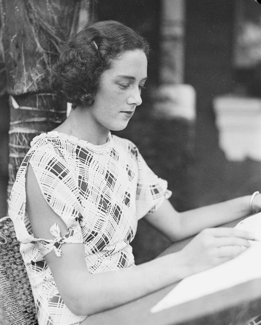 Australian swimmer Kitty Mackay sitting on a chair outdoors drawing, New South Wales, 3 February 1934